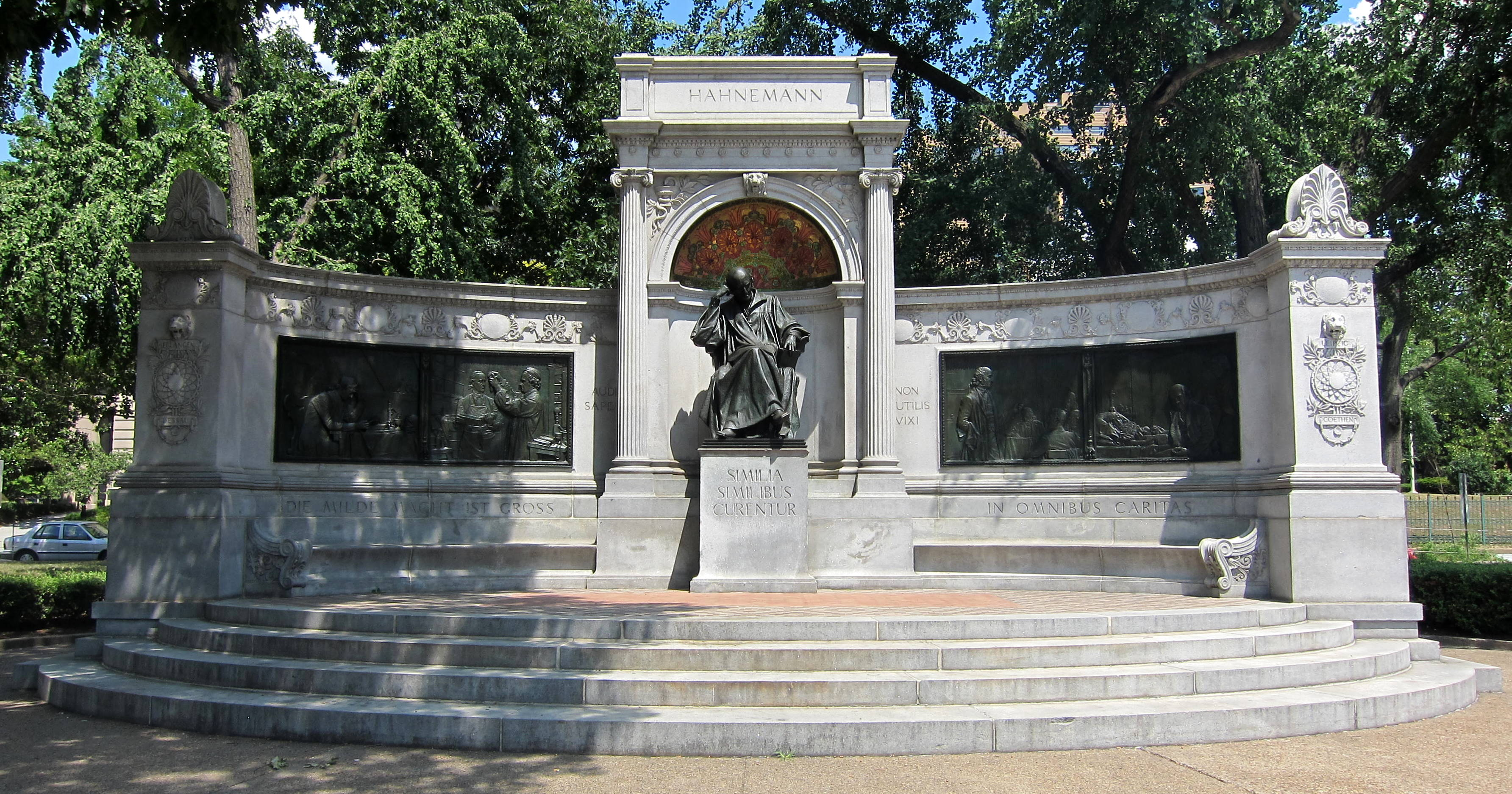 The Samuel Hahnemann Monument located on the east side of Scott Circle in Washington, D.C. The Classical Revival-style monument was sculpted by Charles Henry Niehaus and designed by Julius F. Harder. It is listed on the National Register of Historic Places.